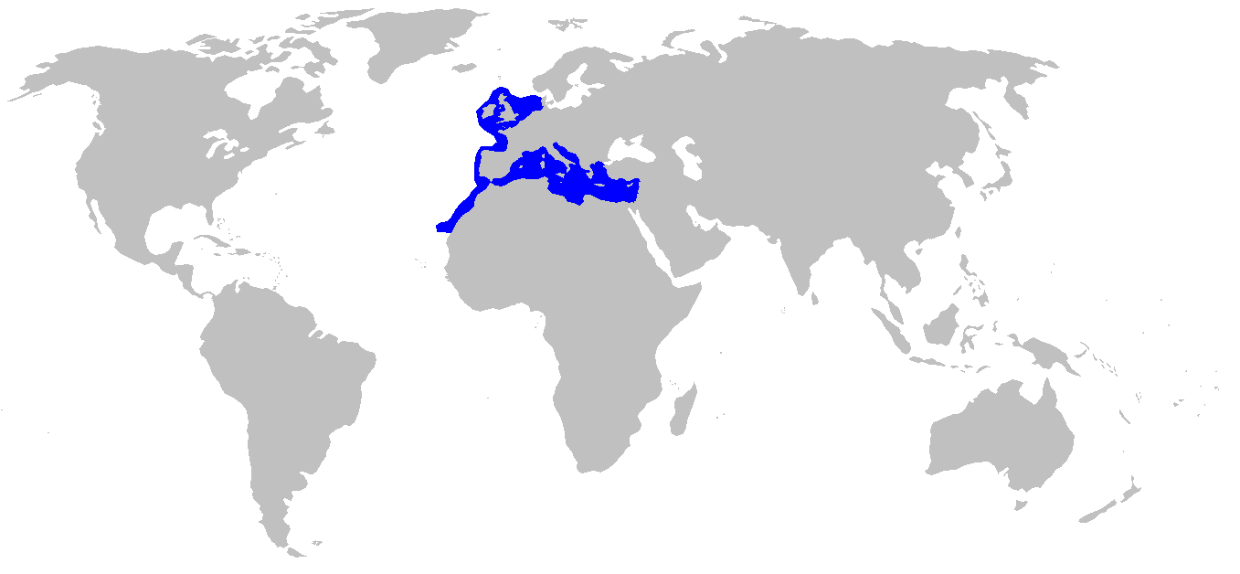 Distribution map for Mustelus asterias